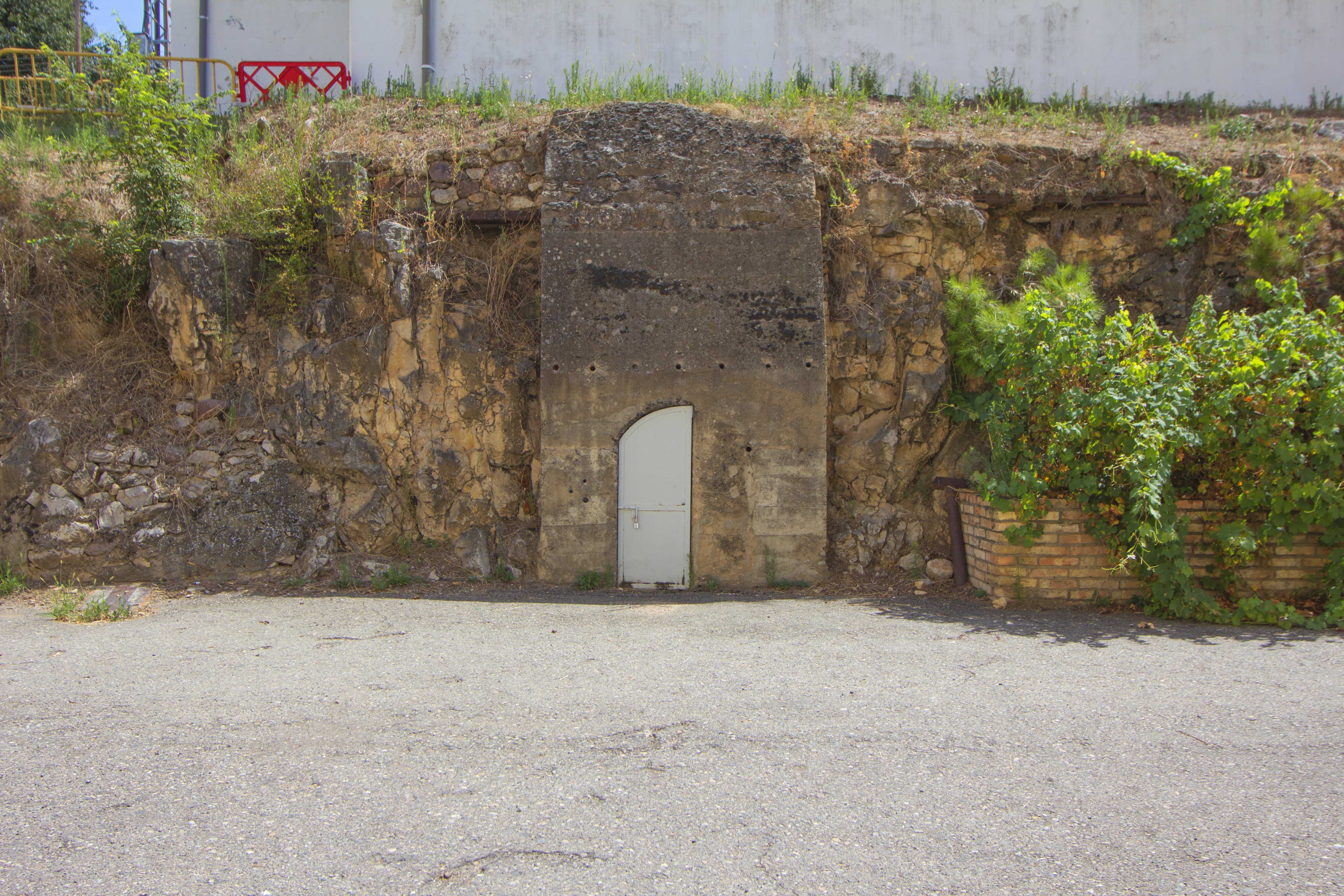 Entrance to air raid shelter at Talarn hydroelectric power plant (Catalan Pyrenees)